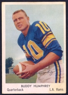 A 1959 promotional image of Los Angeles Rams player Buddy Humphrey.